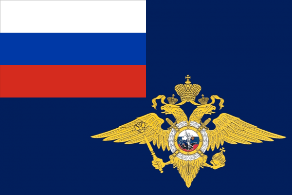 Flag of the Ministry for Internal Affairs of the Russian Federation (MVD of Russia)